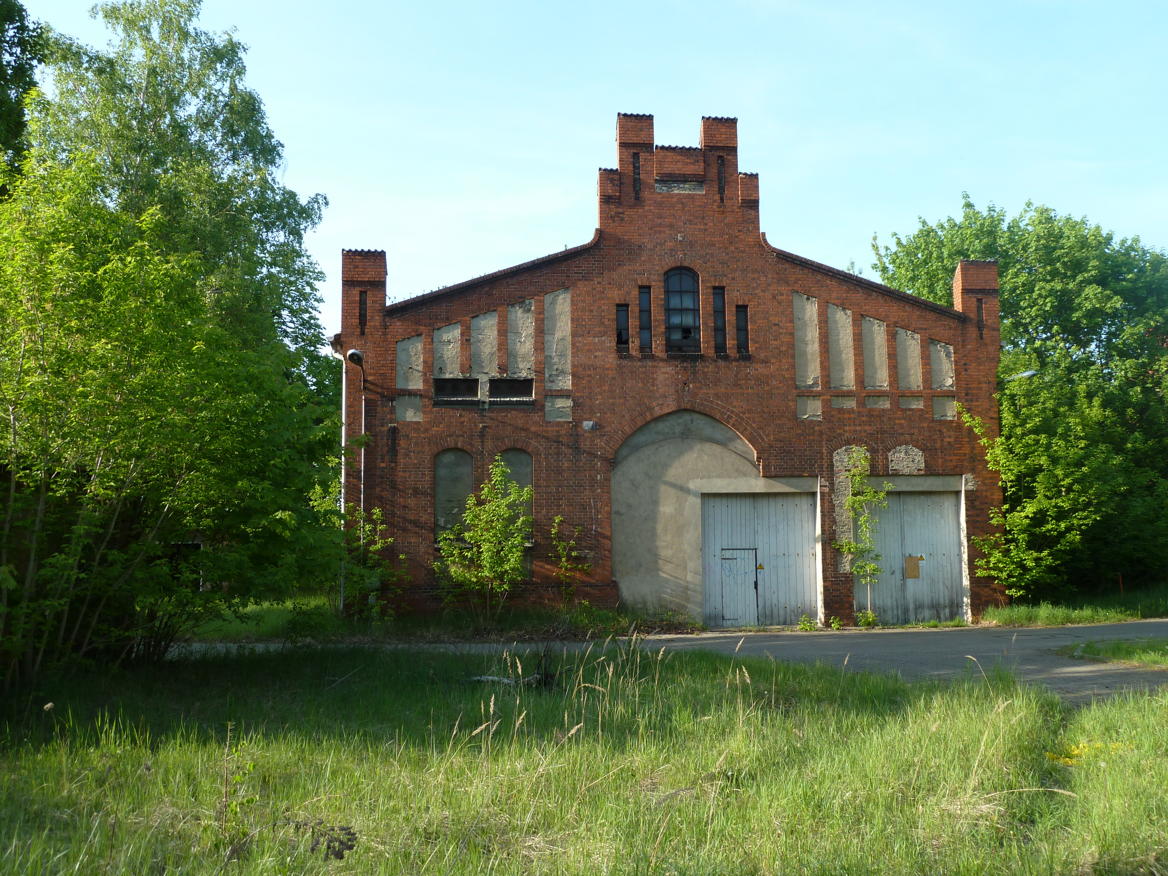 Wustermark Rangierbahnhof, building of former power station